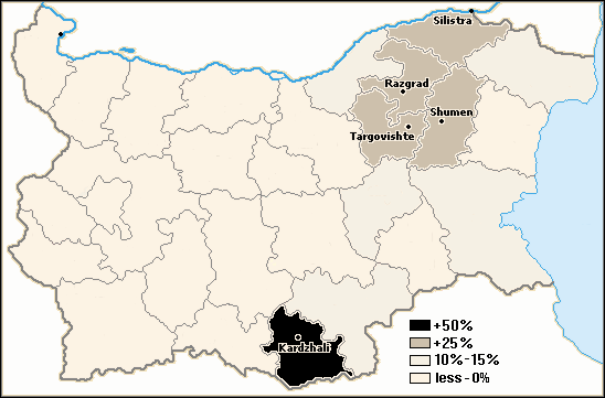 Provinces in Bulgaria, where Turkish minority is living (%)